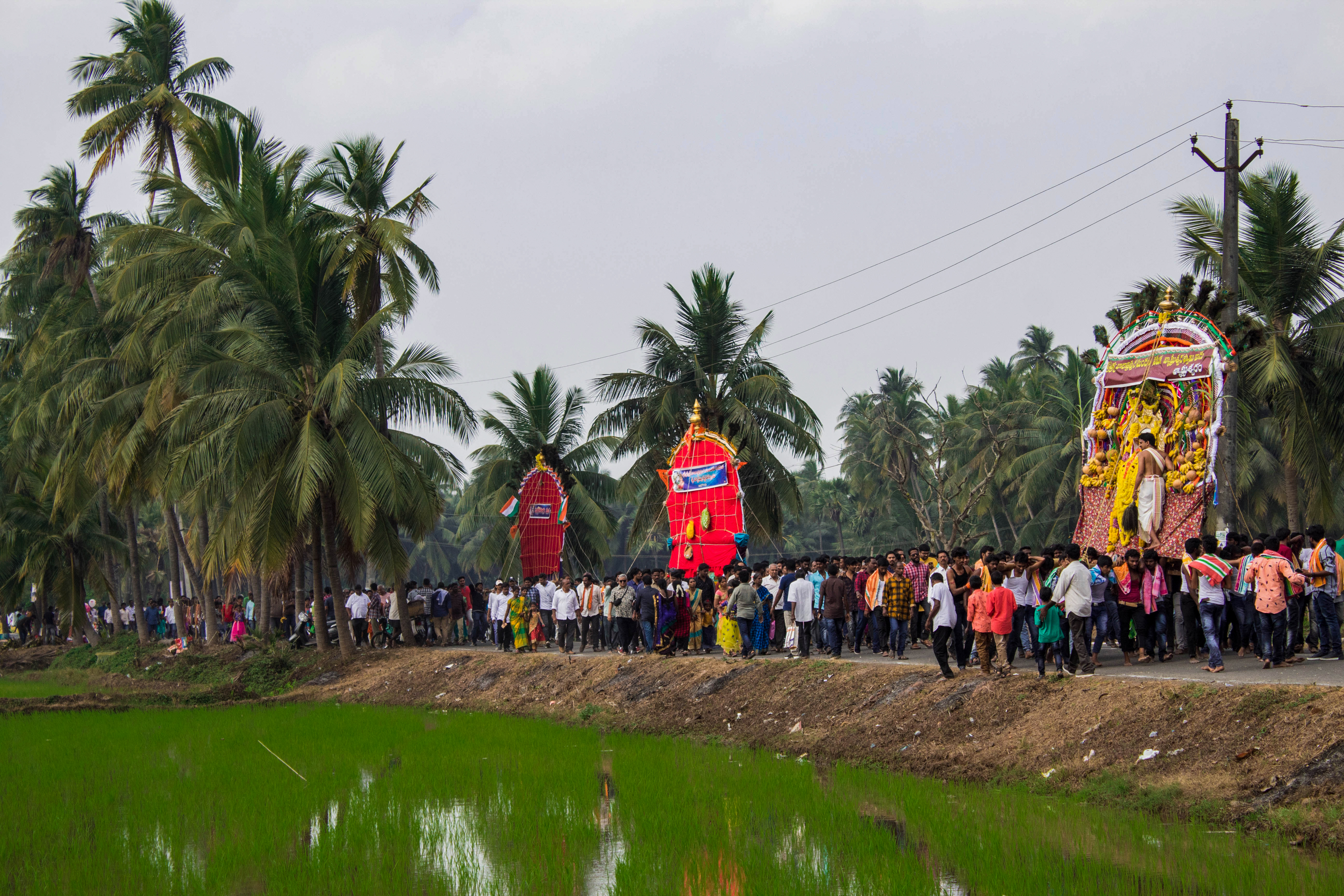 Prabhala theerdham festival in Pulletikuru, Konaseema